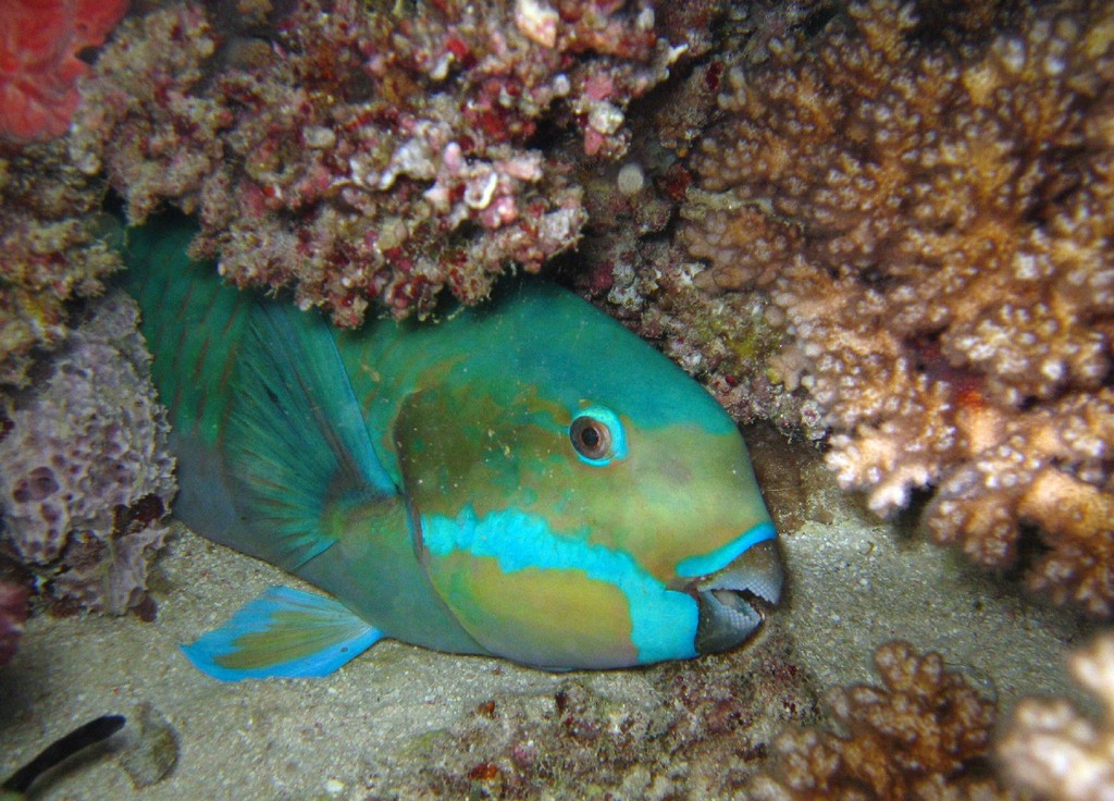 A sleeping Steephead Parrotfish (Chlorurus microrhinos) in nighttime colouration. Challenger Bay, Ribbon Reefs, Great Barrier Reef